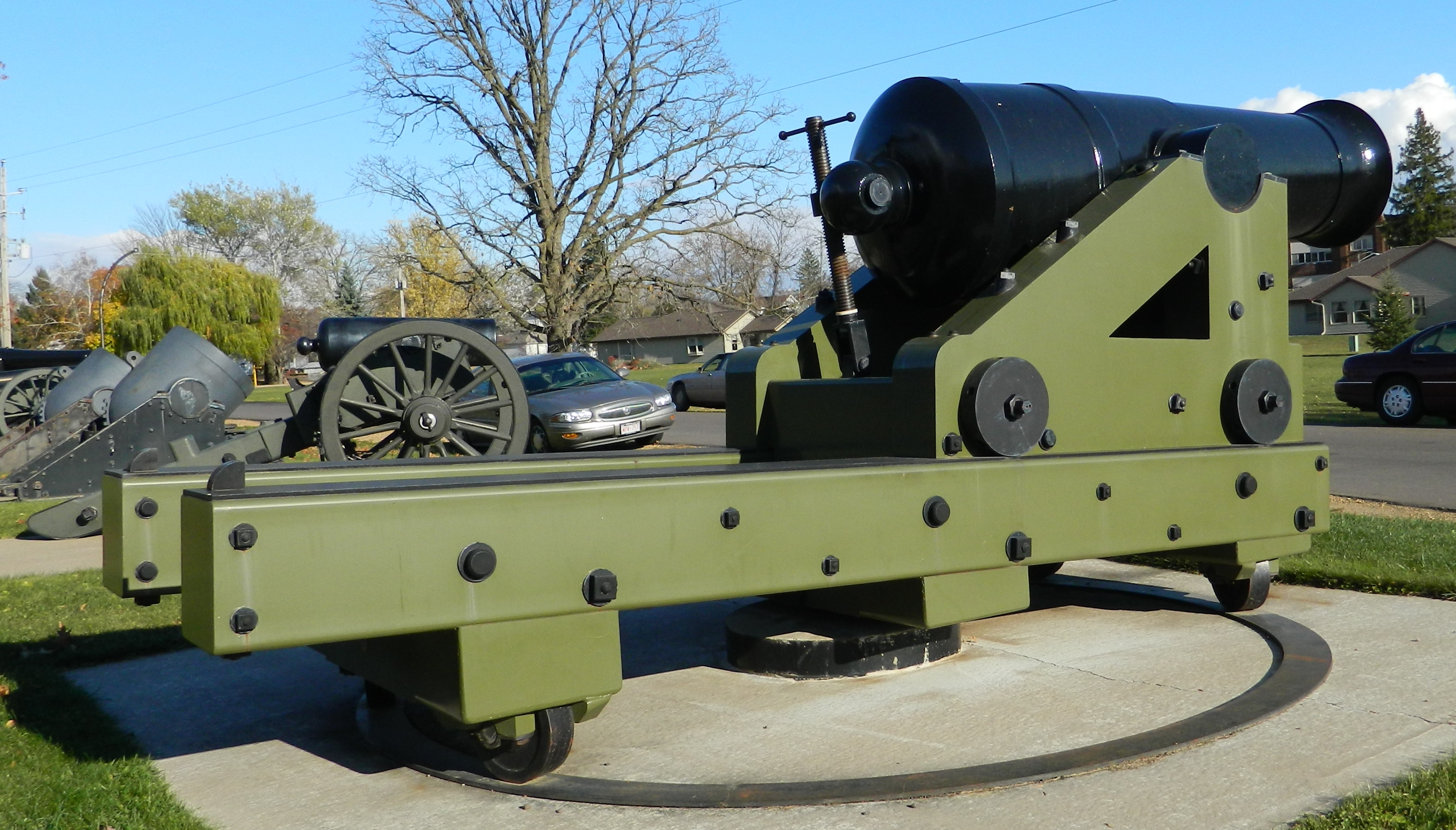 Photograph of a coastal defense gun on a center pivot barbette mount, intended for parapet positions on the coastal fortifications of the United States as part of the Second System of Defense. This gun is a Model 1811 prototype designed by George Bomford, later Chief of Ordnance, U.S. Army. The gun is a 50-pounder Columbiad, bore is 7.25 inches, barrel length is 74 inches, bore length is 63.5 inches. The barrel weighs 6312 pounds. A Columbiad was longer than a howitzer but shorter than a gun. This is a front view. The carriage and chassis restoration is by Paulson Brothers Ordnance of Clear Lake, Wisconsin. This display is located in Clear Lake, Wisconsin.